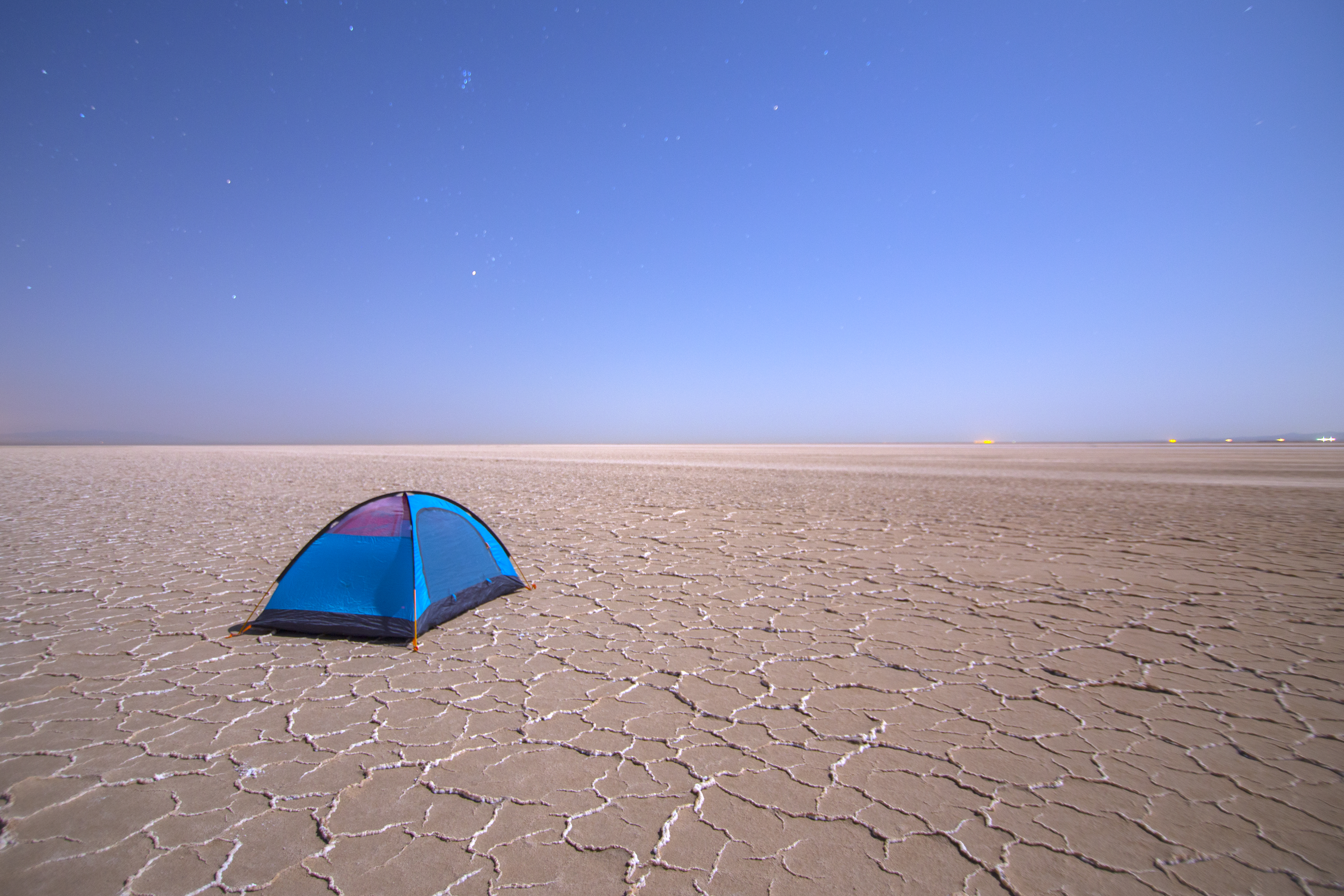 Salt lake "Houz Soltan" in Qom province- Iran